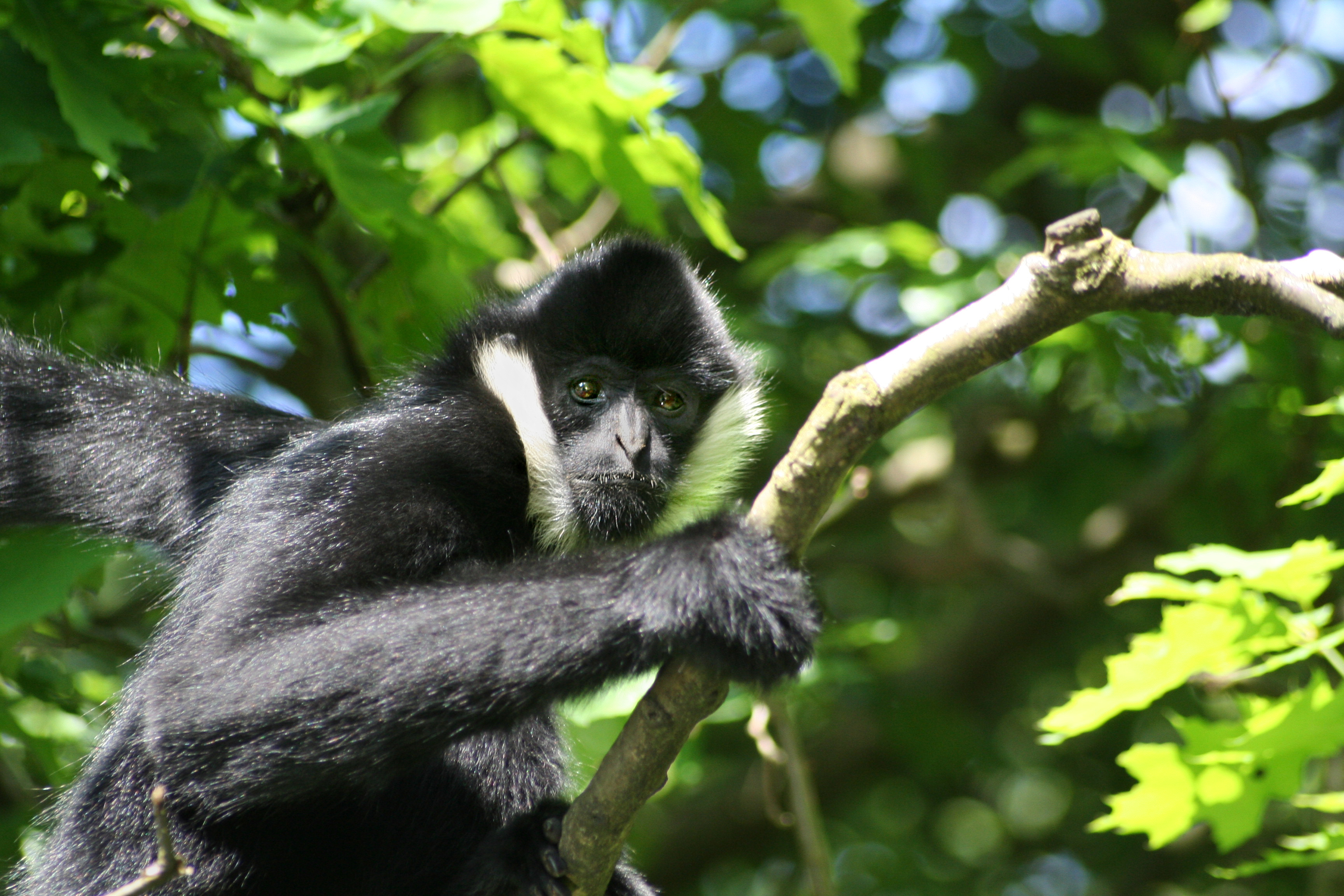 Golden Cheeked gibbon (Nomascus Gabriellae) Male